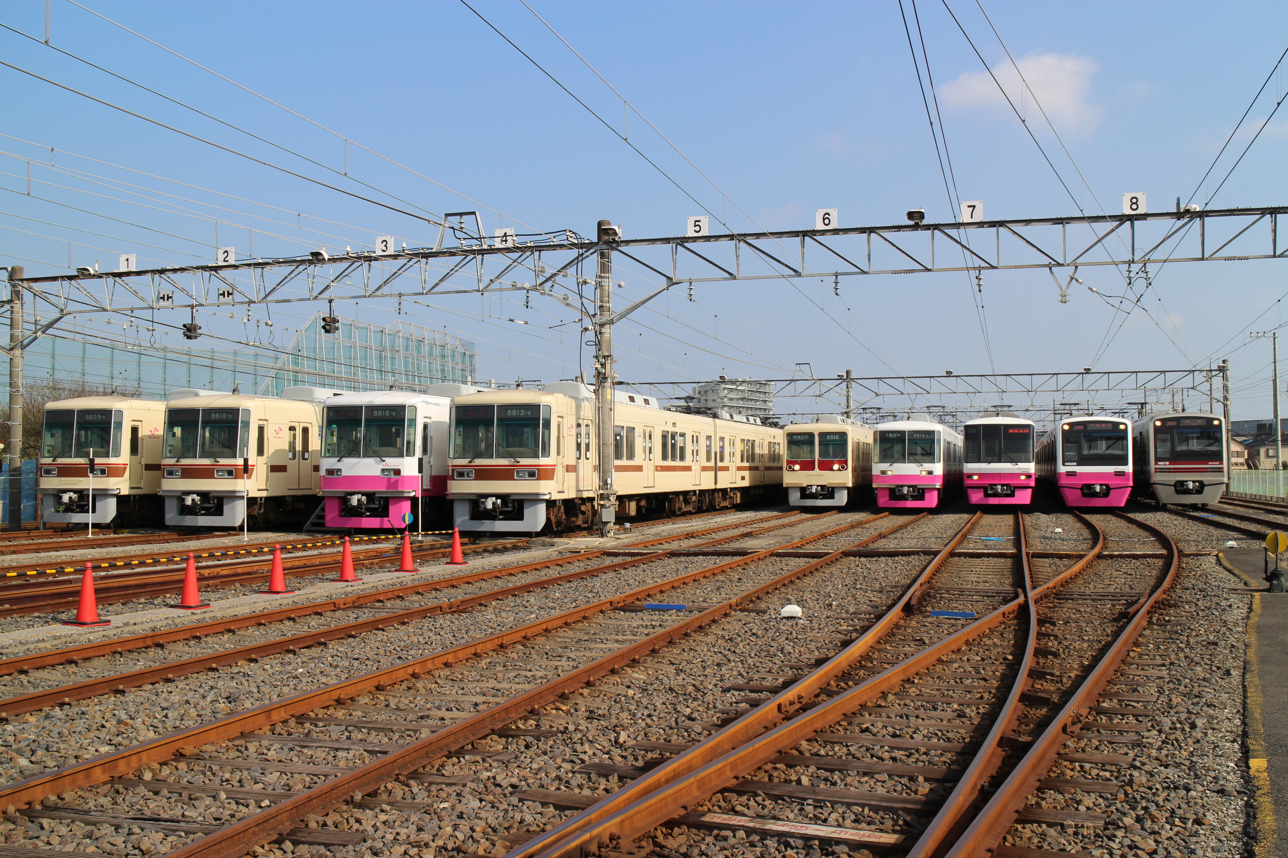 Shin-Keisei Railway Kunugiyama Depot